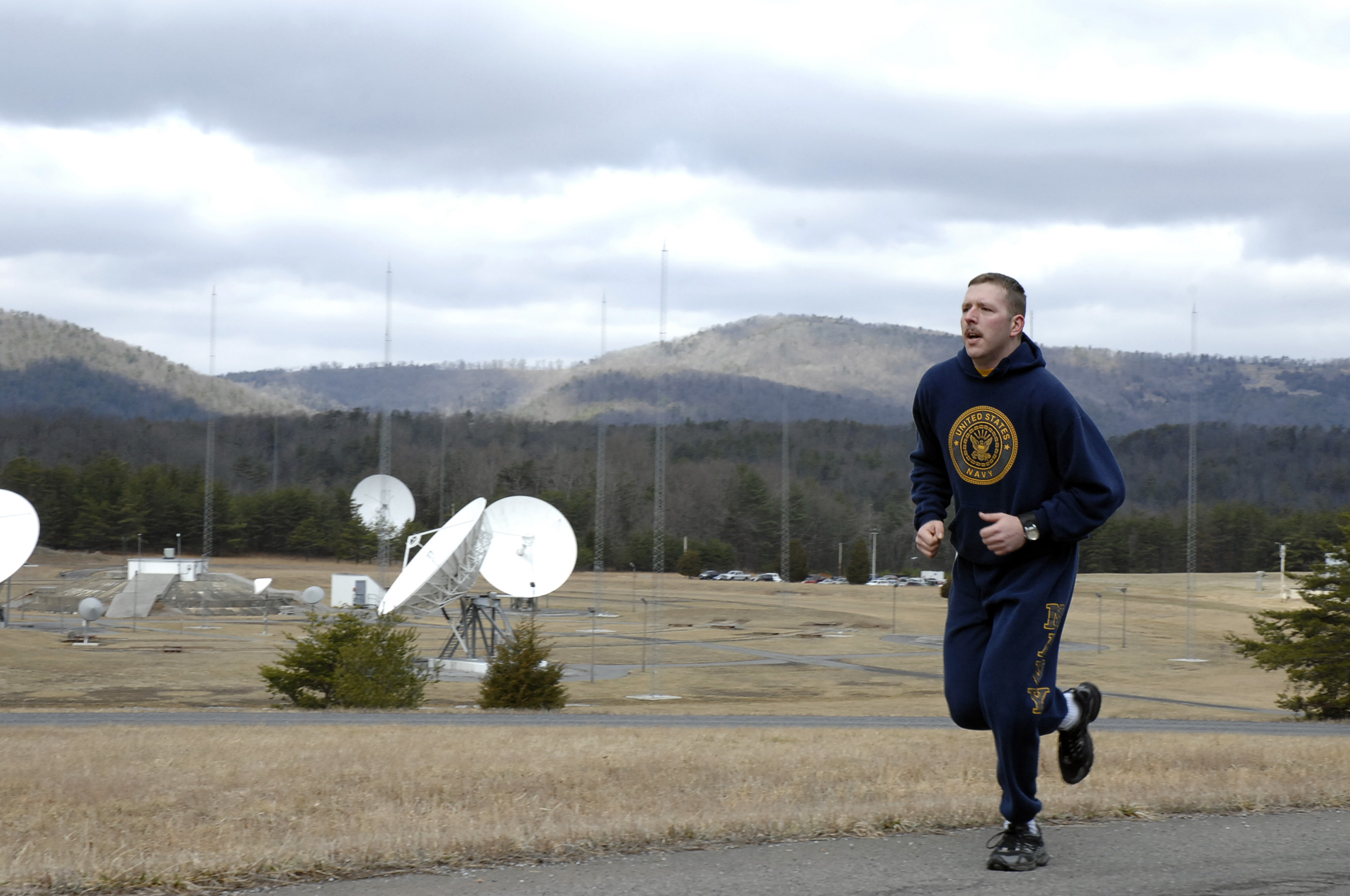 SUGAR GROVE, W. Va. (March 11, 2011) Builder 2nd Class Gary Blank leads the Seabee Birthday Run at Navy Information Operations Command, Sugar Grove, W.Va. (U.S. Navy photo by Mass Communication Specialist 2nd Class Joel Carlson/Released)